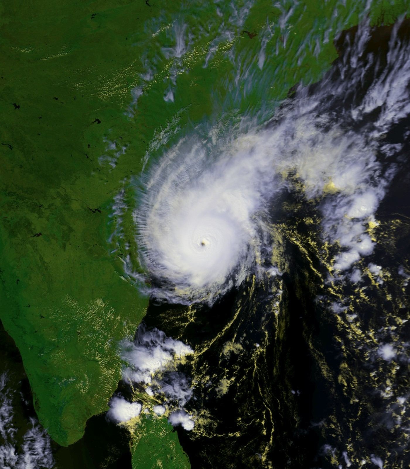 Typhoon Gay as a Super Cyclonic Storm when it was approaching India. This image was produced from data from NOAA-11, provided by NOAA.